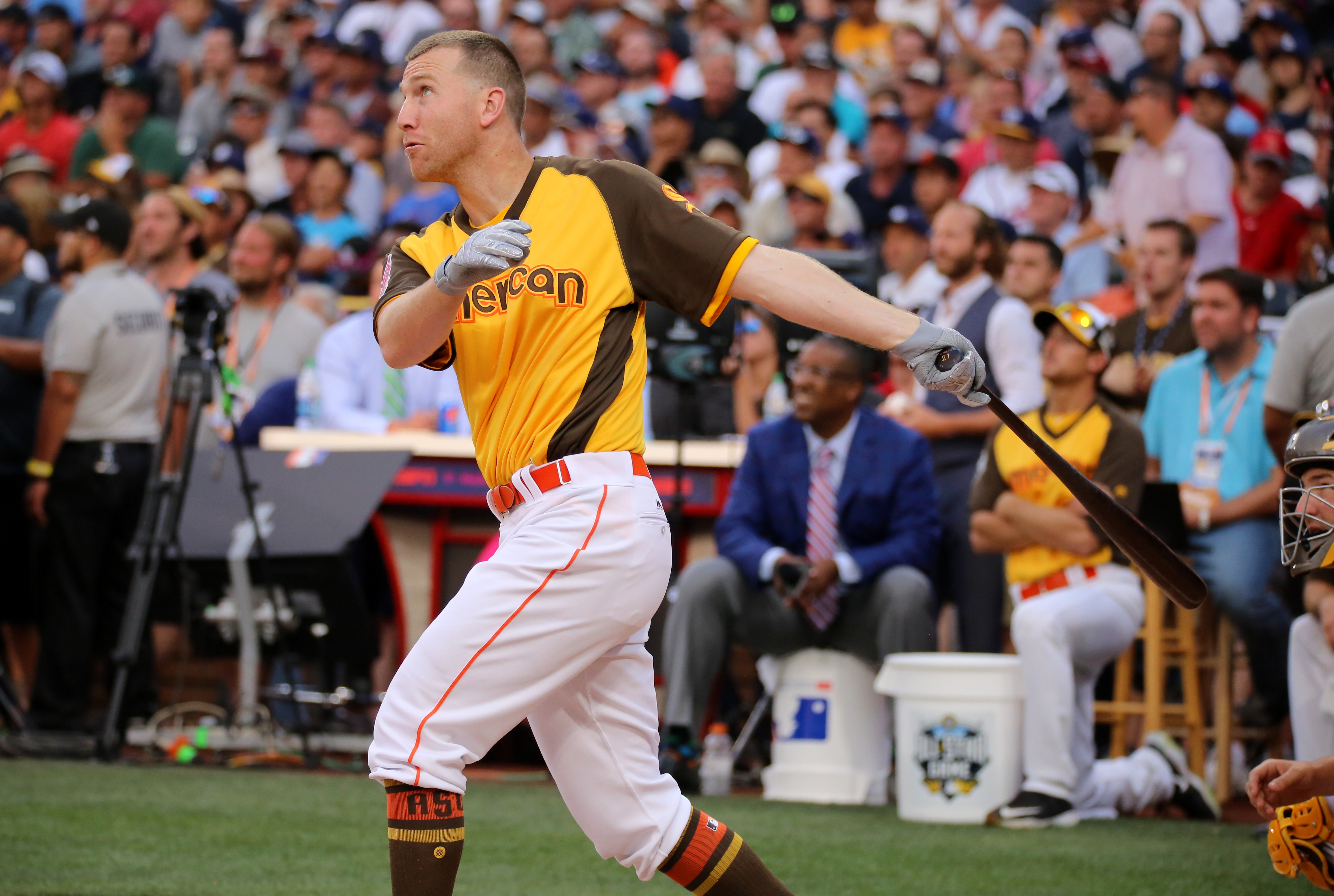 Todd Frazier competes in the final round of the 2016 T-Mobile #HRDerby.